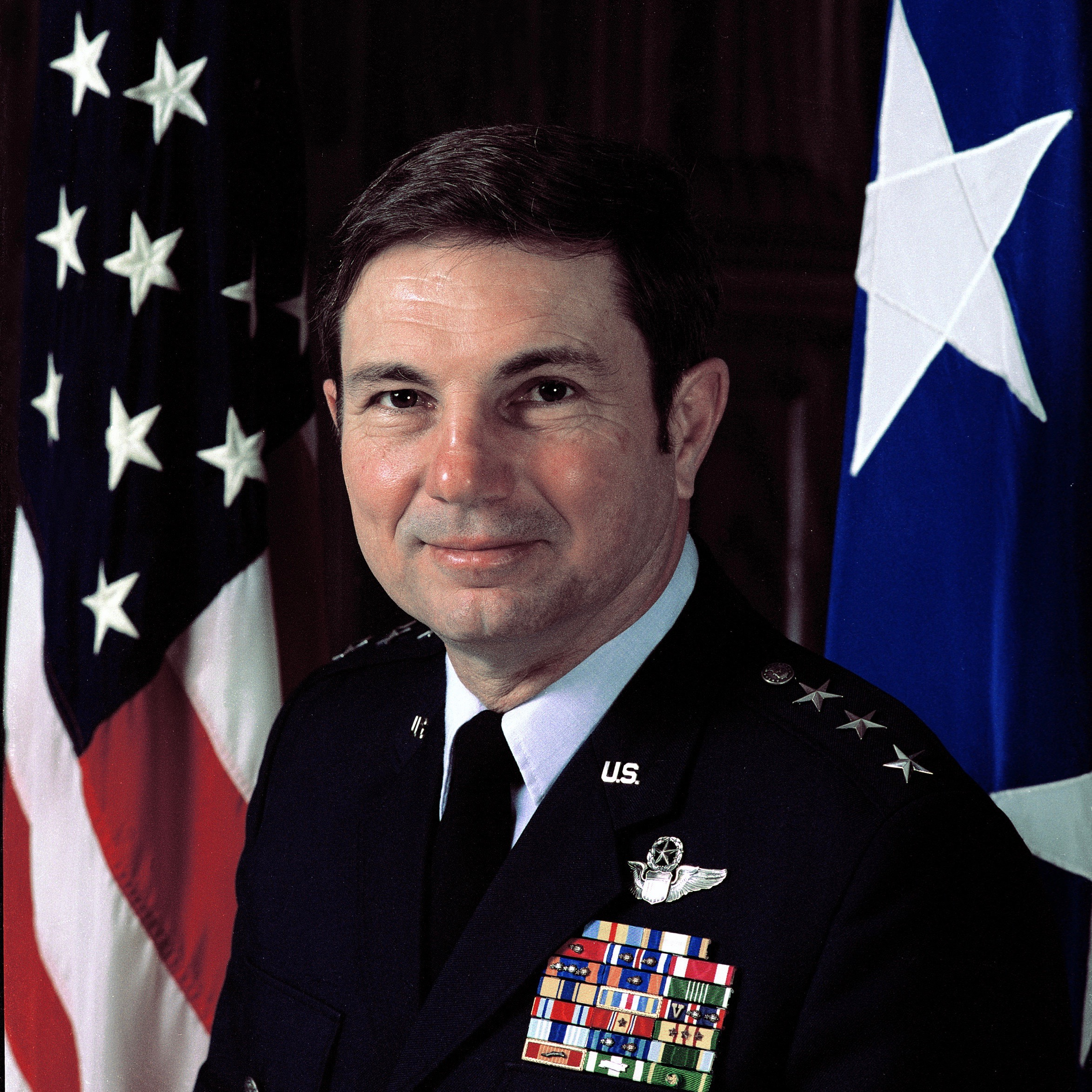 LGEN Spence M. Armstrong, USAF (uncovered)